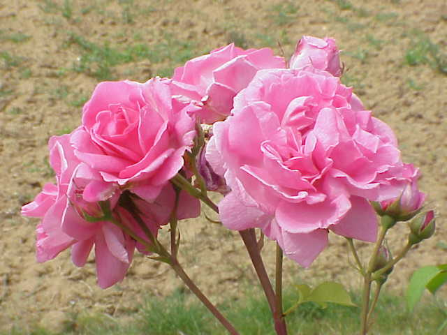 Species: Rosa sp. Family: Rosaceae Cultivar: Charmia, Austin 19?? Image No. 70